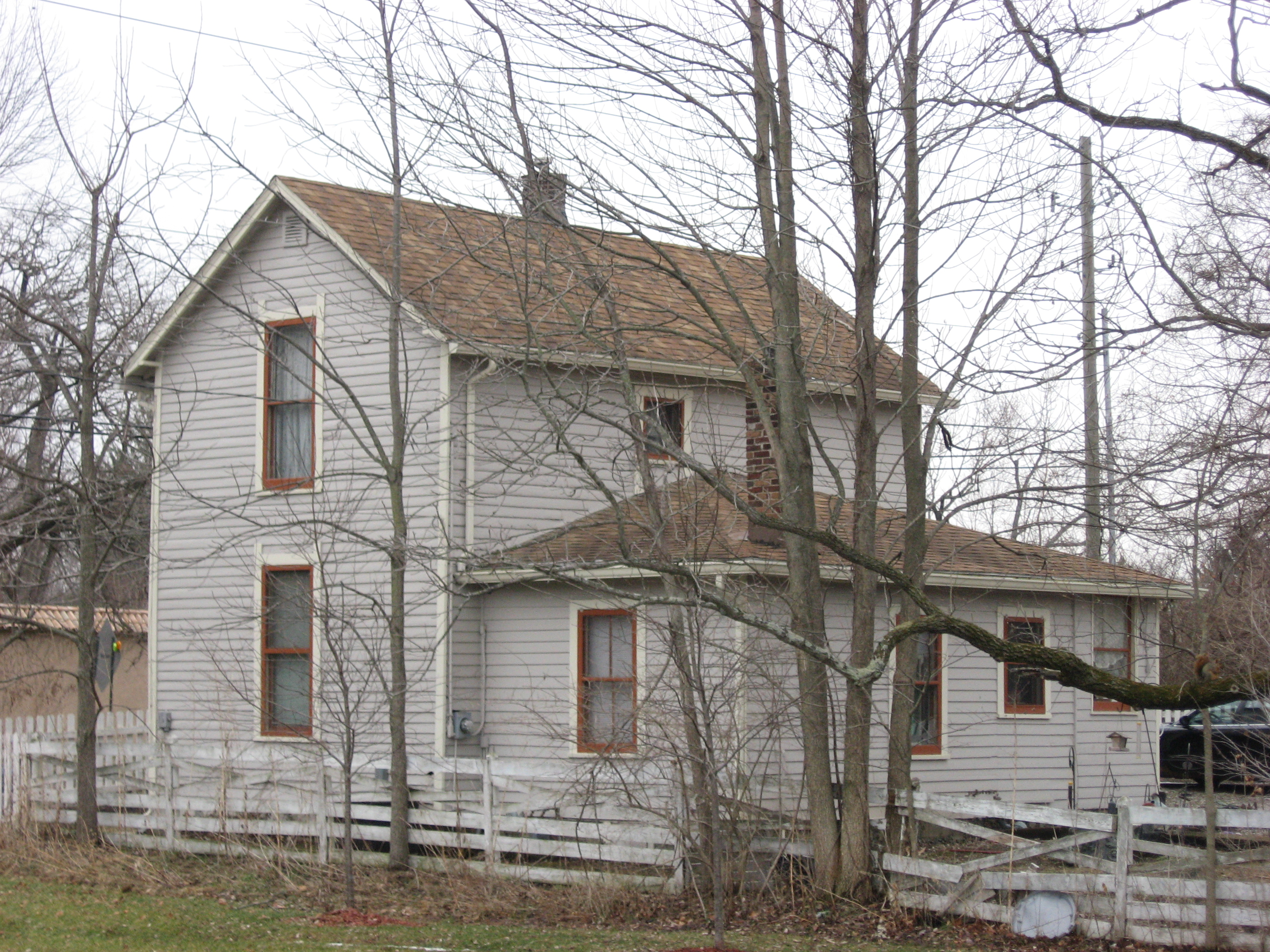 Side and rear of the Michigan Road Toll House, located at 4702 N. Michigan Road in Indianapolis, Indiana, United States. Built in 1866, it is listed on the National Register of Historic Places.